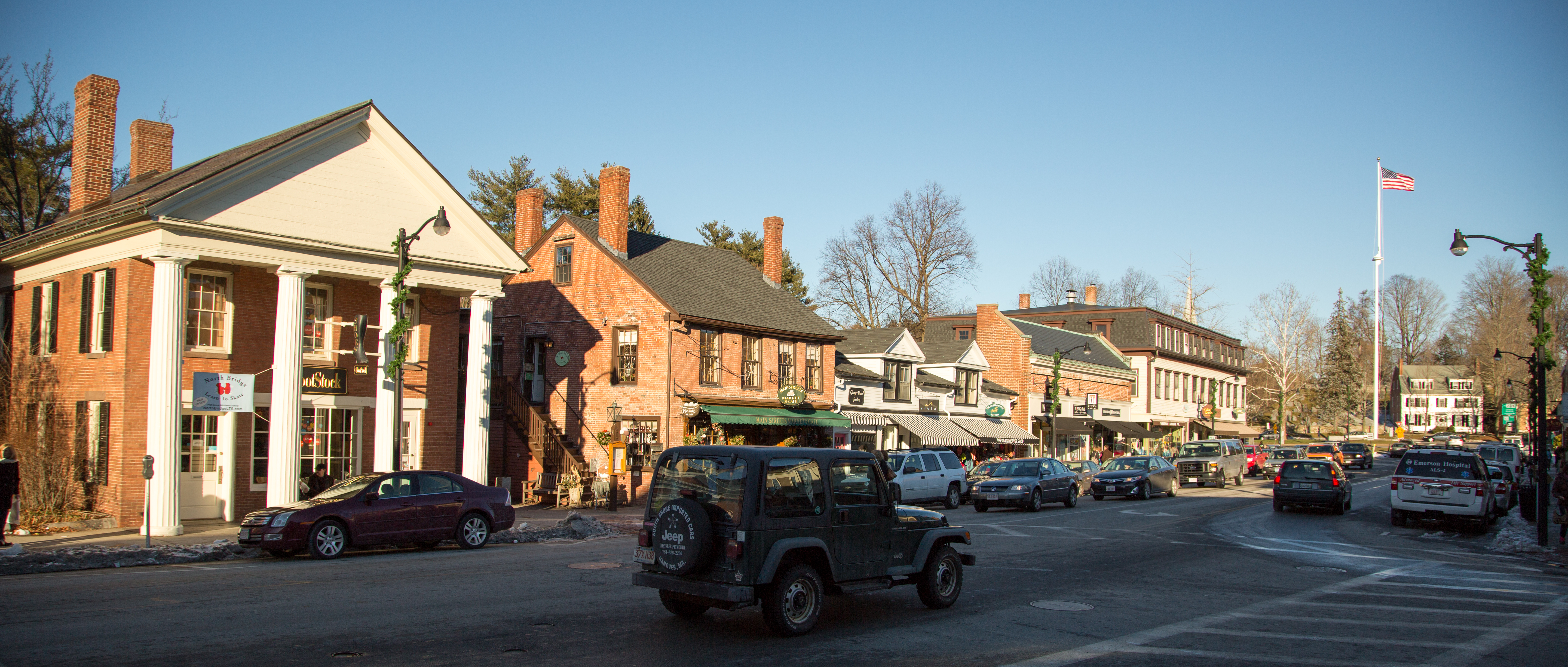 Concord, Mass